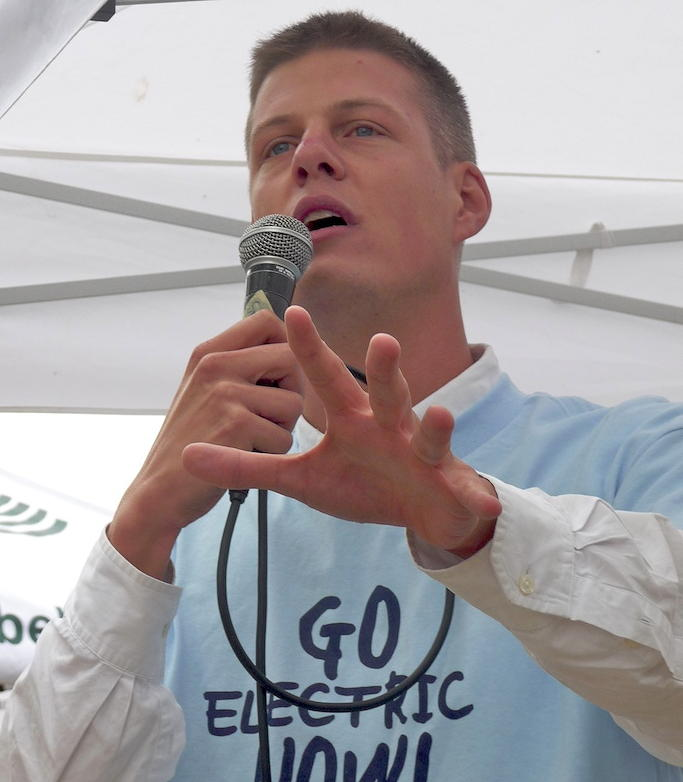 Adam Giambrone, Toronto City Councillor for Ward 18, and Chairman of the Toronto Transit Commission, speaking to a crowd at the Human Train Rally in Sorauren Park, in Toronto.